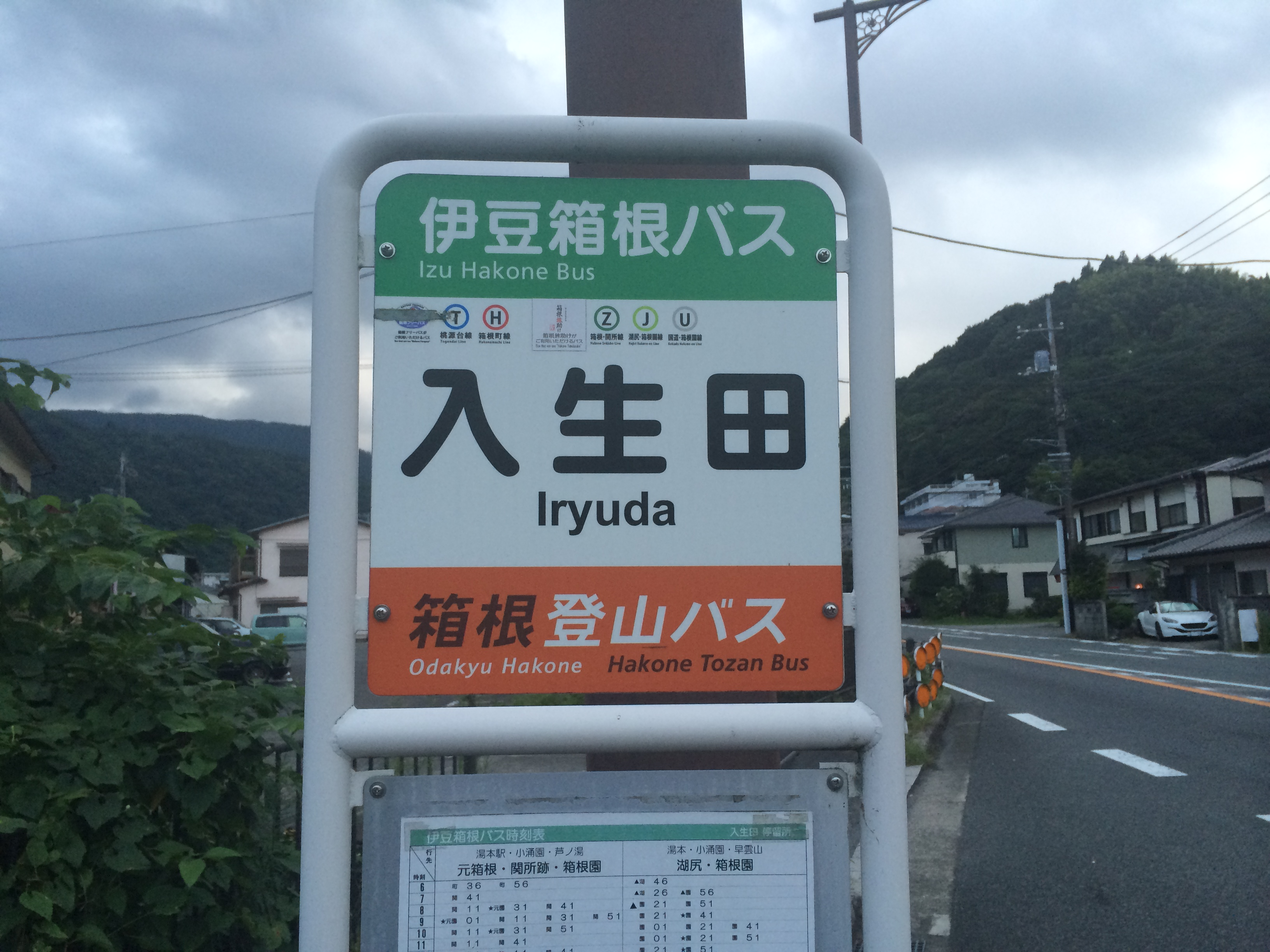 The Iryuda bus stop operated by Hakone-tozan Bus and Izu-hakone Bus in Odawara, Kanagawa Prefecture, Japan